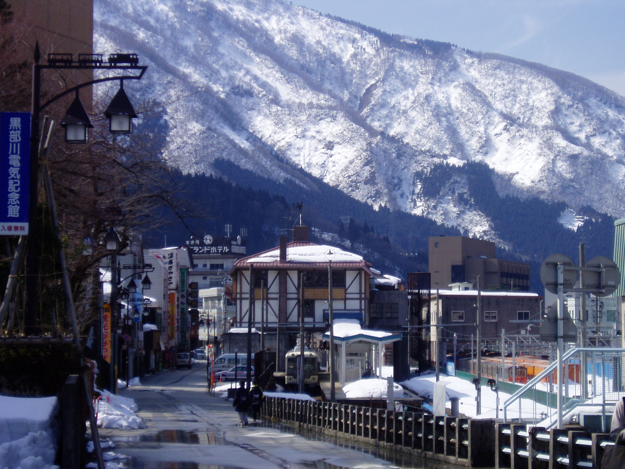 This is Unaduki Hotspot Town.